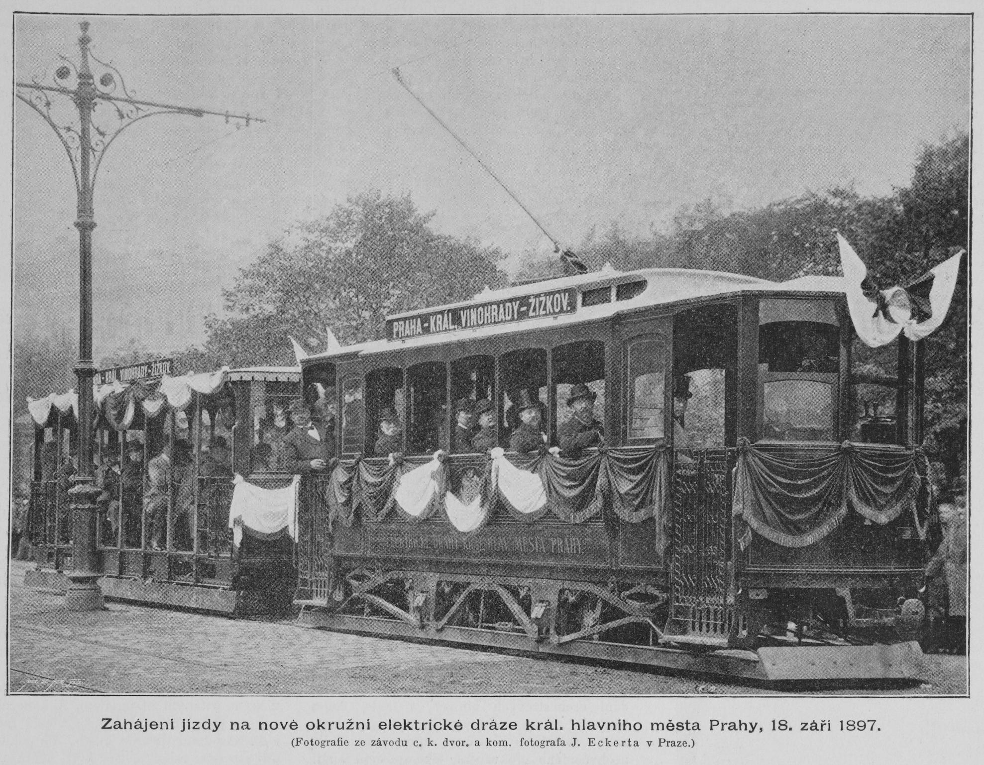 Opening of a circular electric tram route in Prague on September 18, 1897